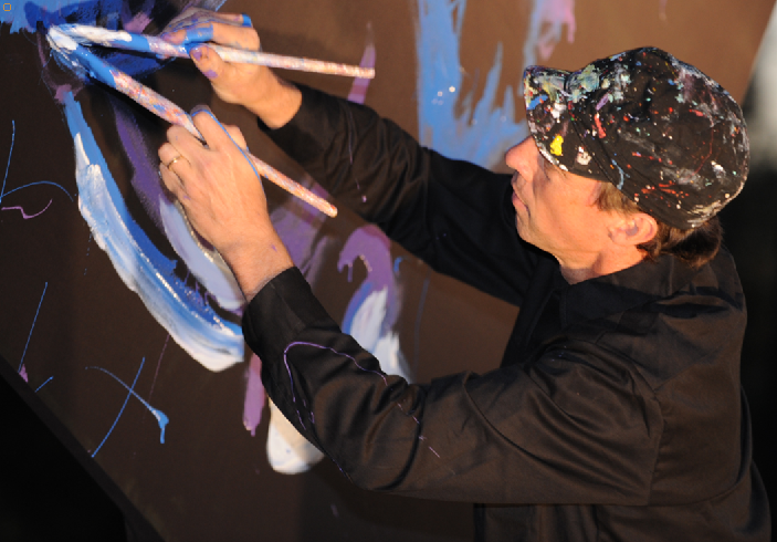 Capture of Dan Dunn in the middle of speed painting.